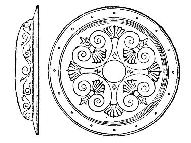 Shield from Ancient Greece